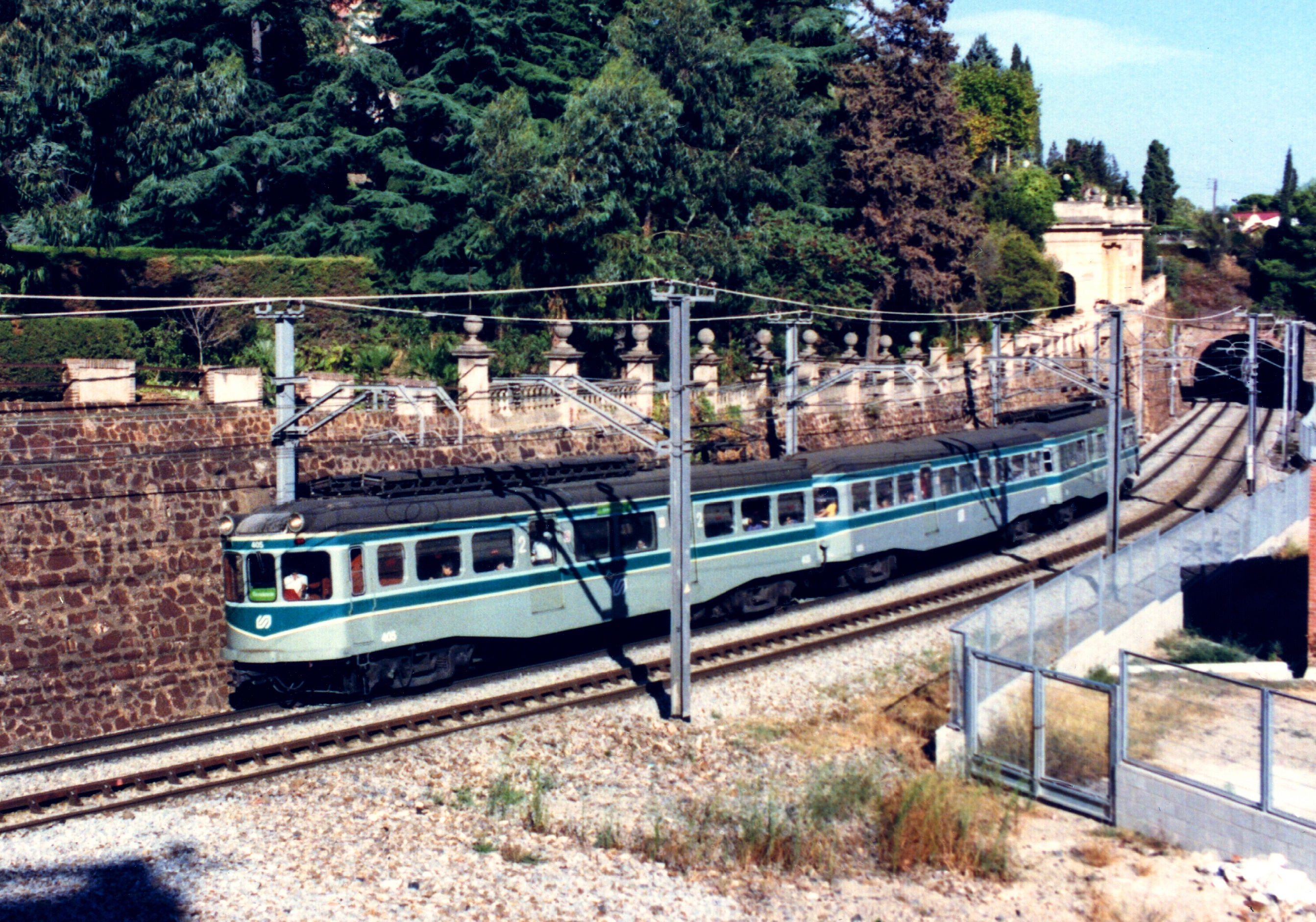 The train with cars 405-805-505 of Ferrocarrils de la Generalitat de Catalunya (FGC) arriving at Peu del Funicular, working the D521 semi-direct train from Barcelona-Plaça Catalunya to Terrassa.